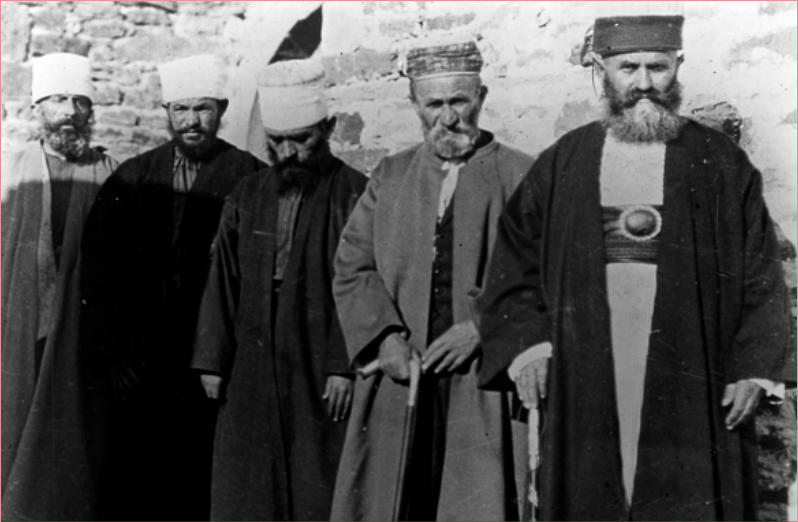 ED005_RAI 400.13131 Albania. Përmet. Dervishes at the Bektashi teqe (dervish lodge) of Përmet (Photo: Evan MacRury, 30 March 1904).